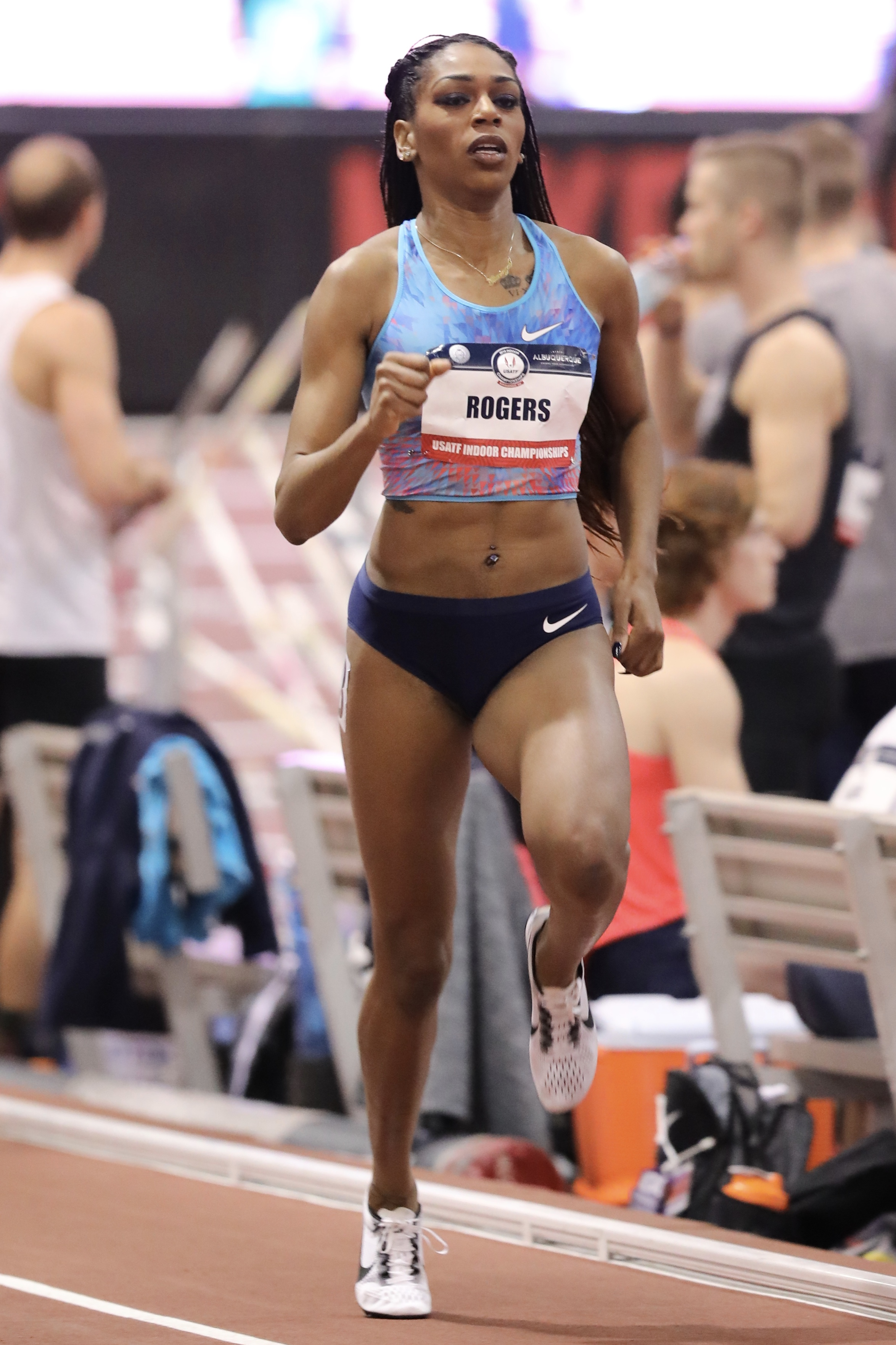 Raevyn Rogers runs the 800m at 2018 USATF Indoor Champs in Albuquerque, New Mexico